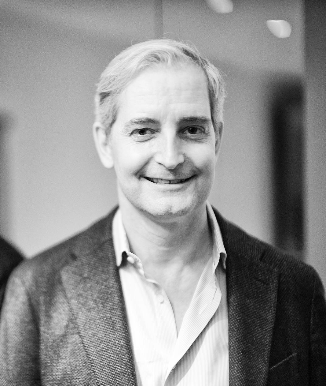 Portrait of Ed Fries, American video game developer associated with Microsoft and the Xbox.